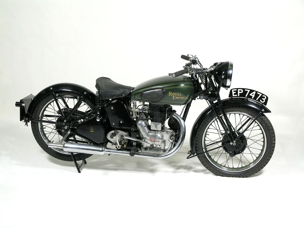 Editing undertaken: Levels, Unsharp Mask